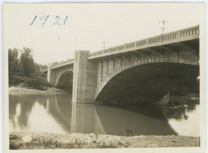 Photograph of the Maryland Bridge across the Assiniboine River in Winnipeg, Manitoba in 1921